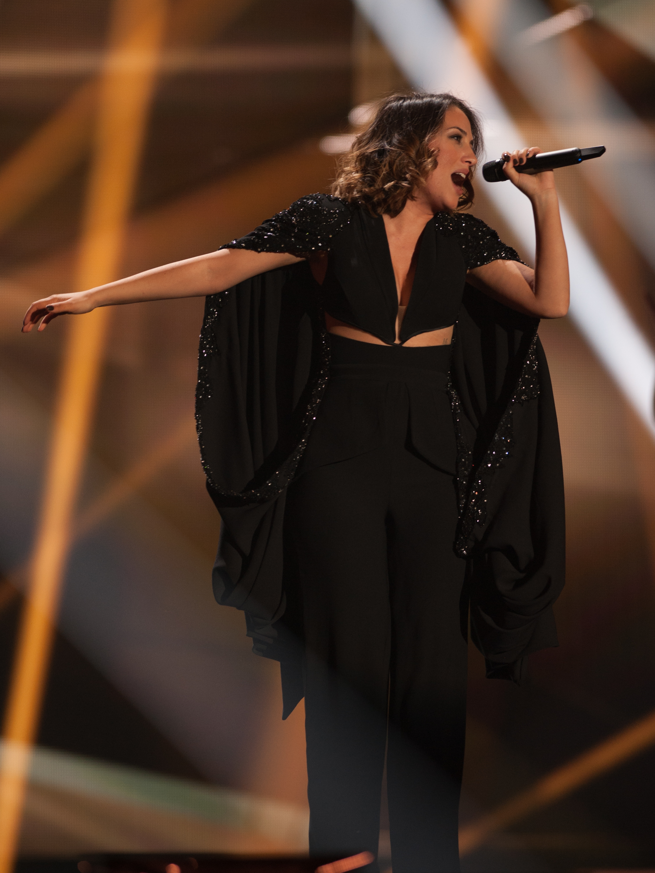 Eurovision Song Contest Vienna 2015: Elhaida Dani, Albania